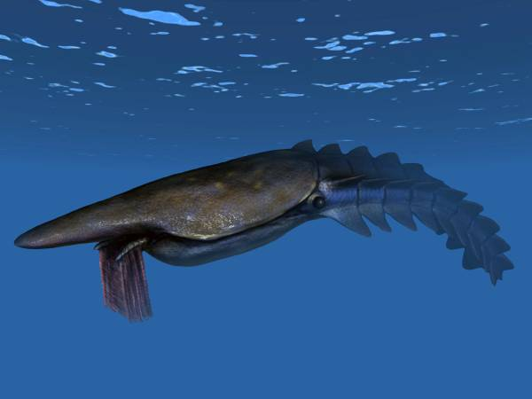 Life reconstruction of Aegirocassis benmoulai